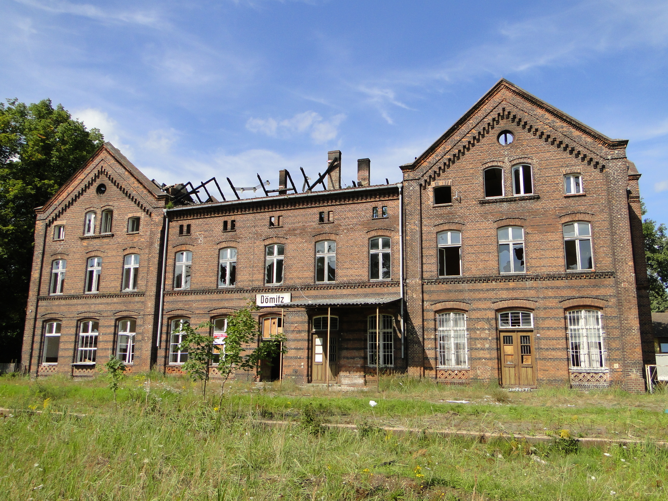 Train station building after the fire on 11 August 2011 in Dömitz.